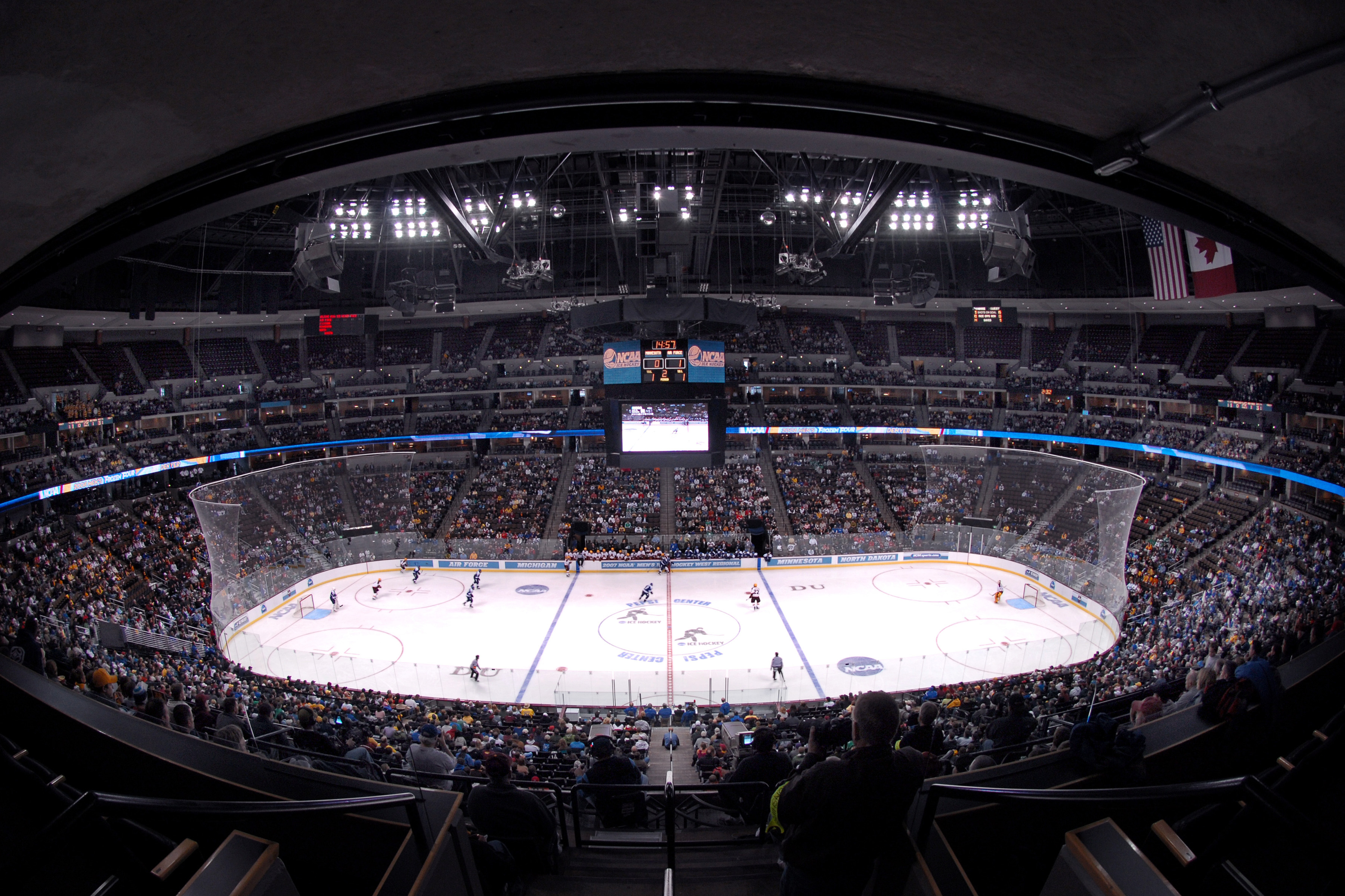 Pepsi Center in Denver was the site for Air Force's first appearance in the NCAA Hockey Tournament March 24. A crowd of 11,161 saw Minnesota edge the Falcons, 4-3.